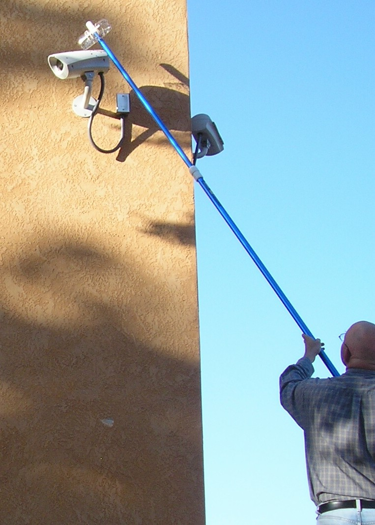 Investigator Benjamin Radford conducting experiments on a camera at a Santa Fe courthouse to identify a ghostly image.